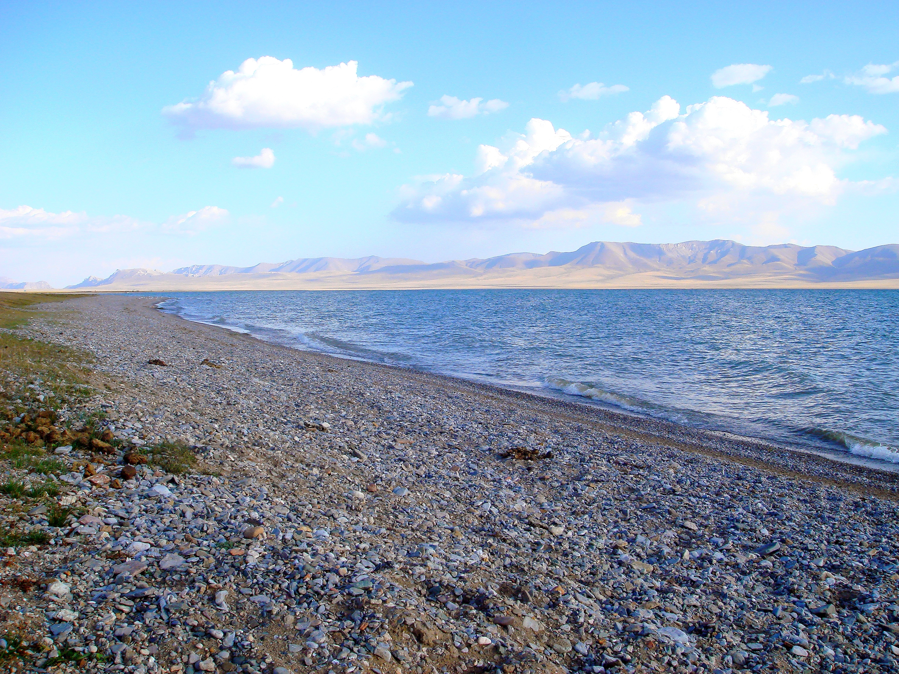 Northern shore of the lake Song-Köl (Naryn Province, Kyrgyzstan).